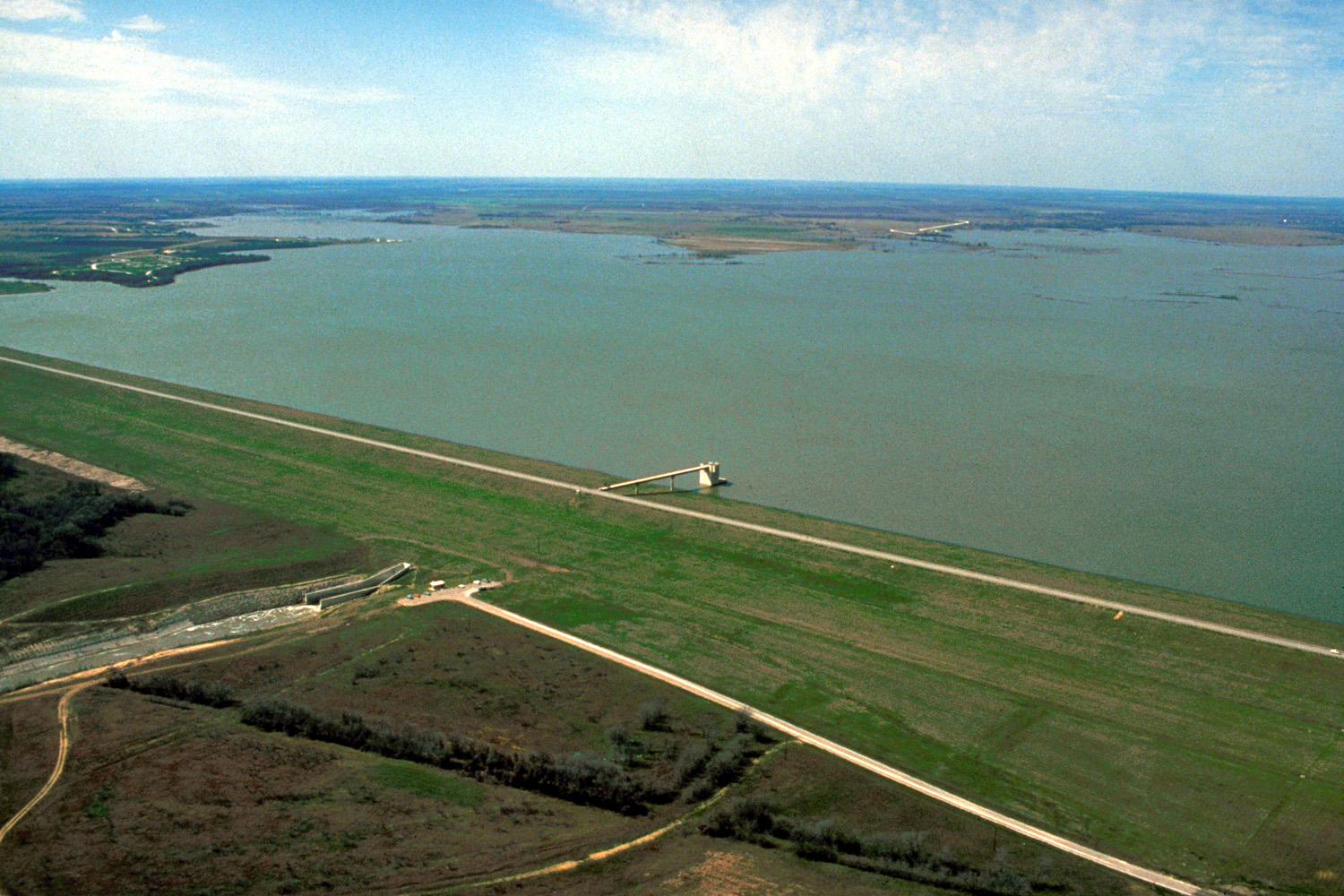 Aerial view of Granger Lake and Dam on the San Gabriel River in Williamson County, Texas, USA. The dam is located approximately 10 miles (16 km) north-northwest of Taylor, Texas. The U.S. Army Corps of Engineers constructed the dam in 1980 for flood control and water supply. View is to the southwest. Coordinates: 30°41′54.42″N 97°19′55.2″W / 30.69845°N 97.332°W